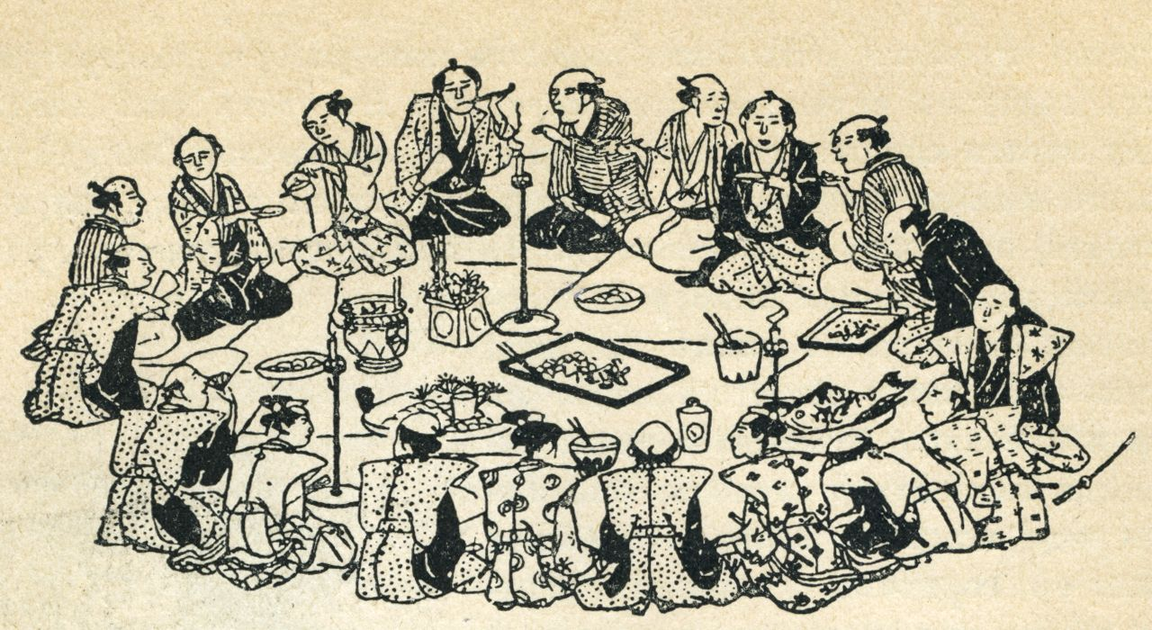 Japanese wedding. Image from the book "Japan And Japanese" (1902). Page 92